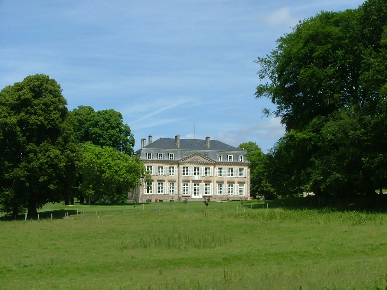 castle of Salvanet